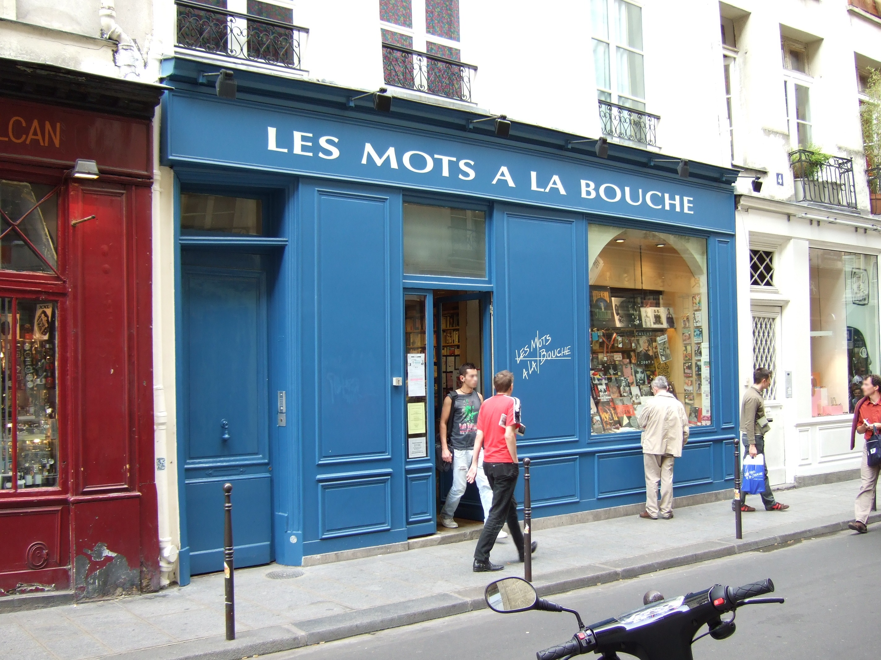 Paris - "Les Mots a la Bouche", a LGBT bookshop.